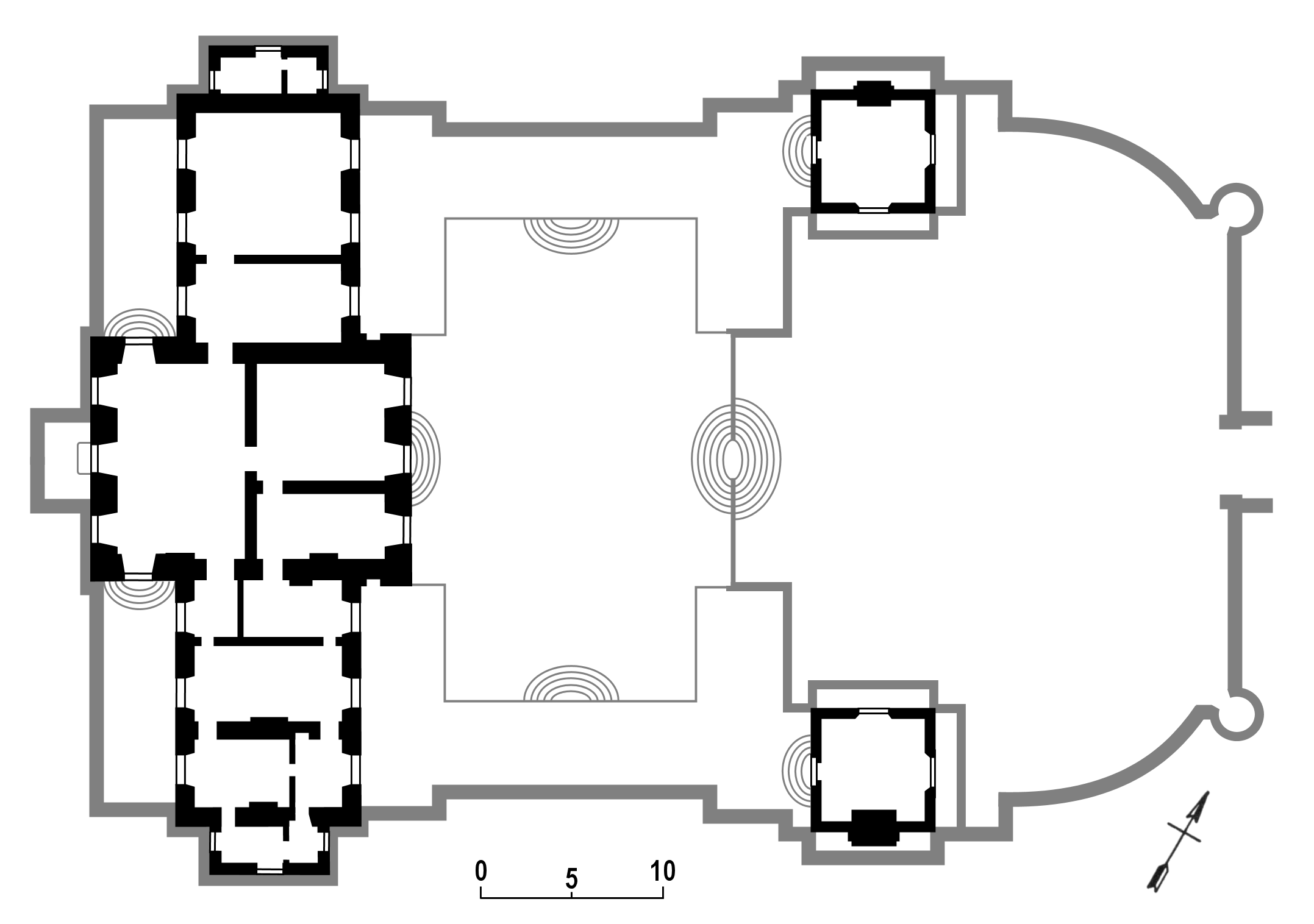 Floor plan of the château de Balleroy